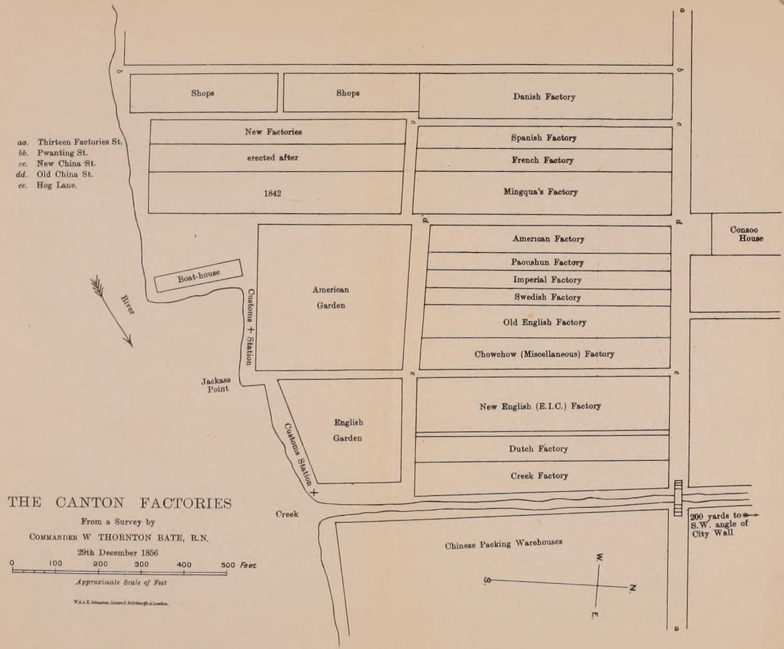 "Plan of the Canton Factories from a survey by Commander William Thornton Bate, R.N.", the condition of the Thirteen Factories at Guangzhou prior to their destruction by fire in 1856 at the onset of the Second Opium War. "Imperial" refers to the Austrian Empire.